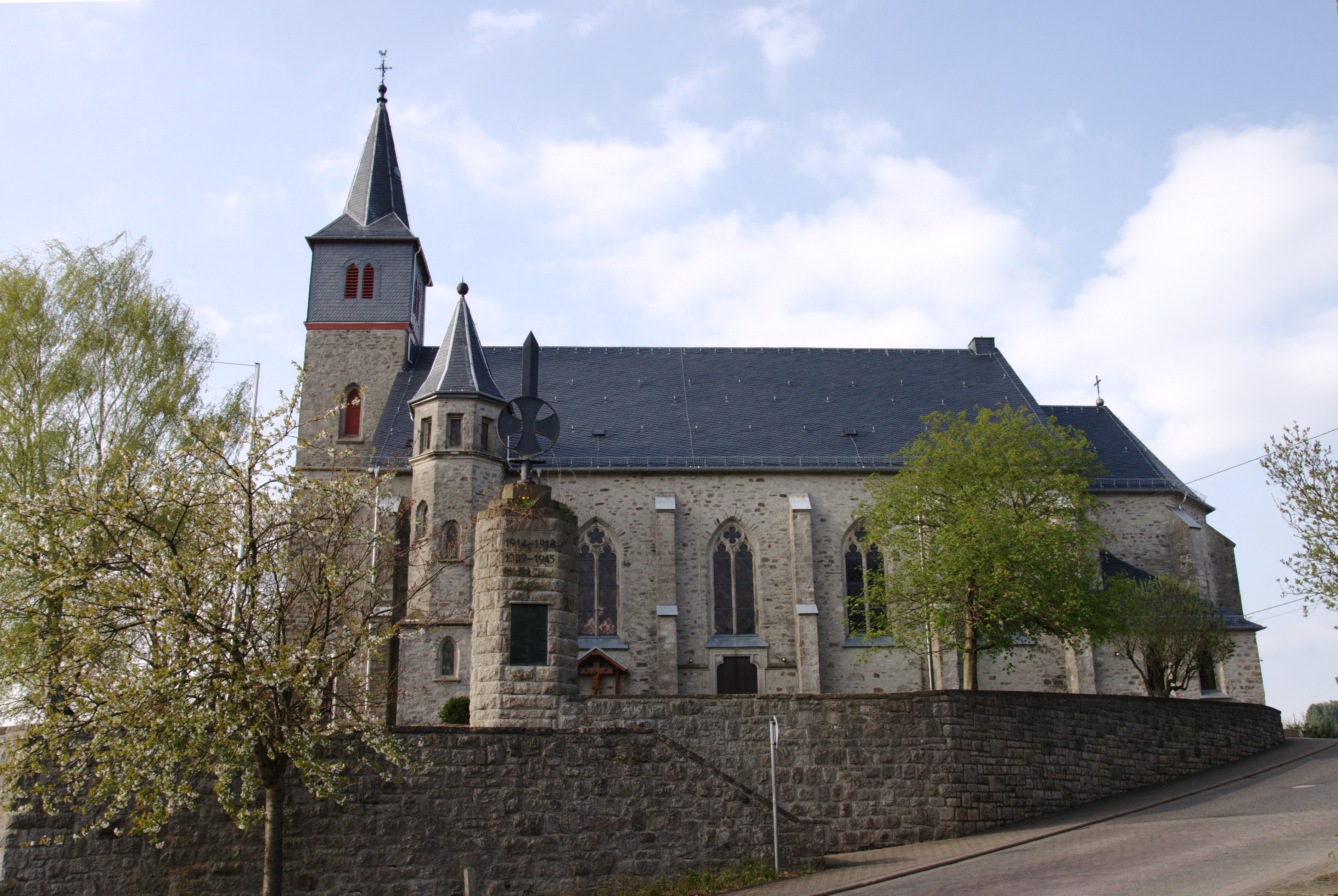 Village Weidenhahn, Westerwald, Germany. Catholic church, errected 1869-70